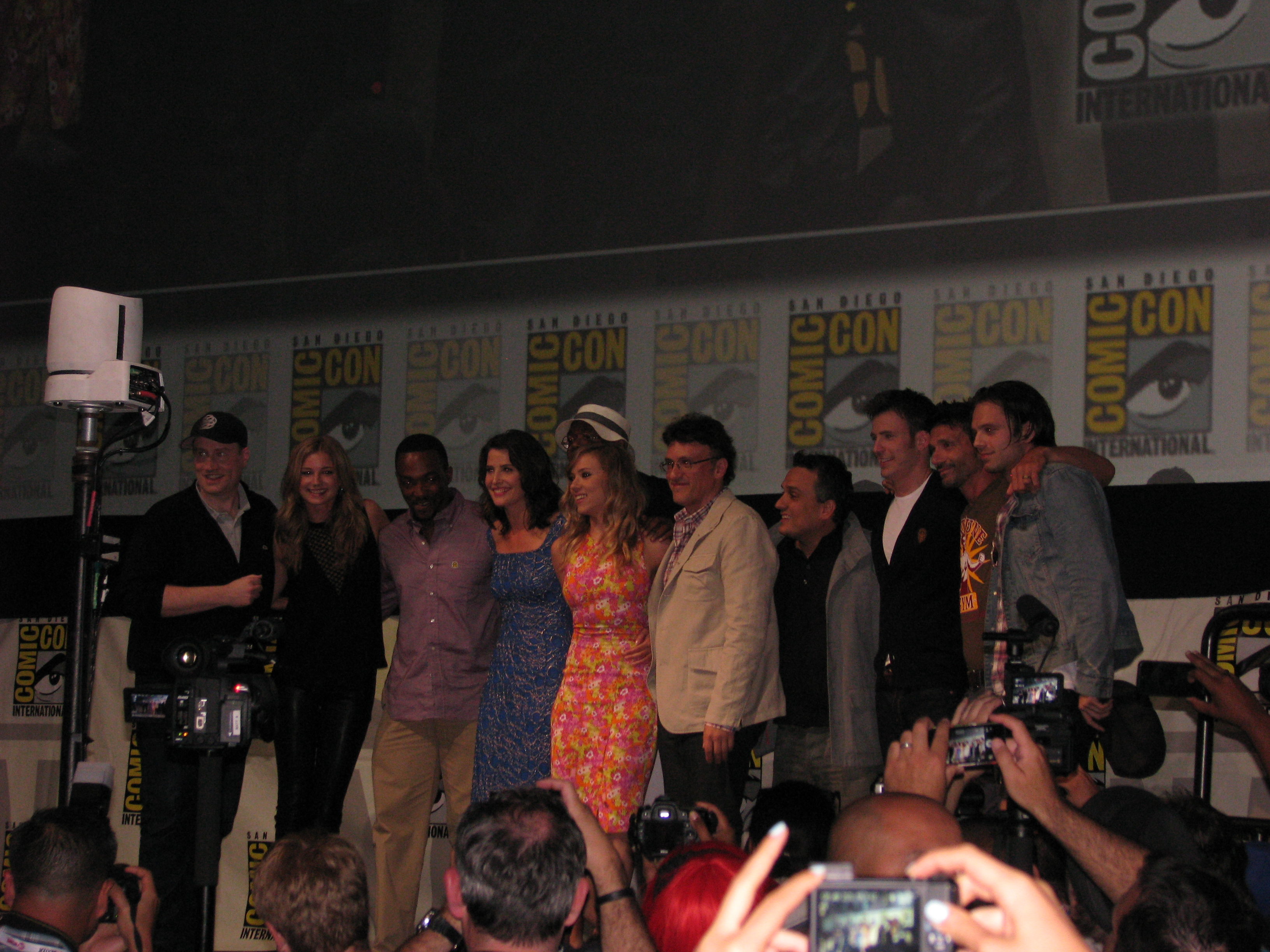 The cast and crew of the Captain America: The Winter Soldier panel with [left to right] producer Kevin Fiege, Emily VanCamp, Anthony Mackie, Cobie Smulders, Scarlett Johansson, directors Anthony and Joe Russo, Chris Evans, Frank Grille and Sebastian Stan. Oh, and Samuel L. Jackson in the back.